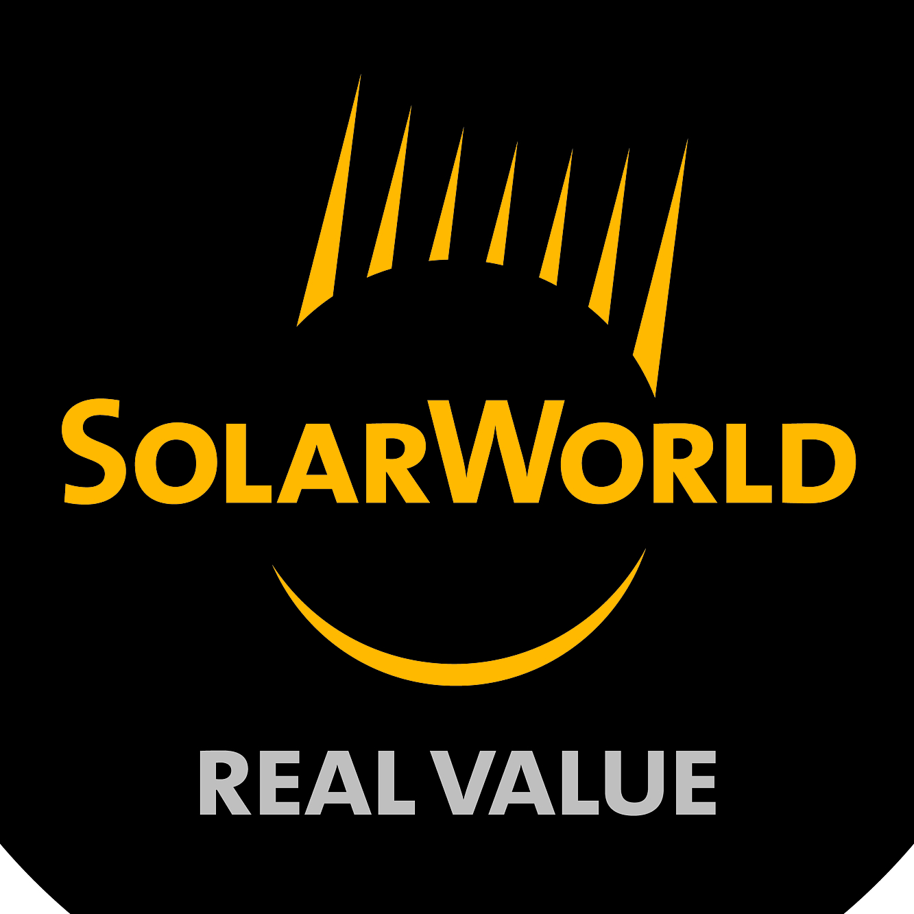 Logo of SolarWorld